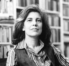 Susan Sontag photographed in her home 1979 ©Lynn Gilbert